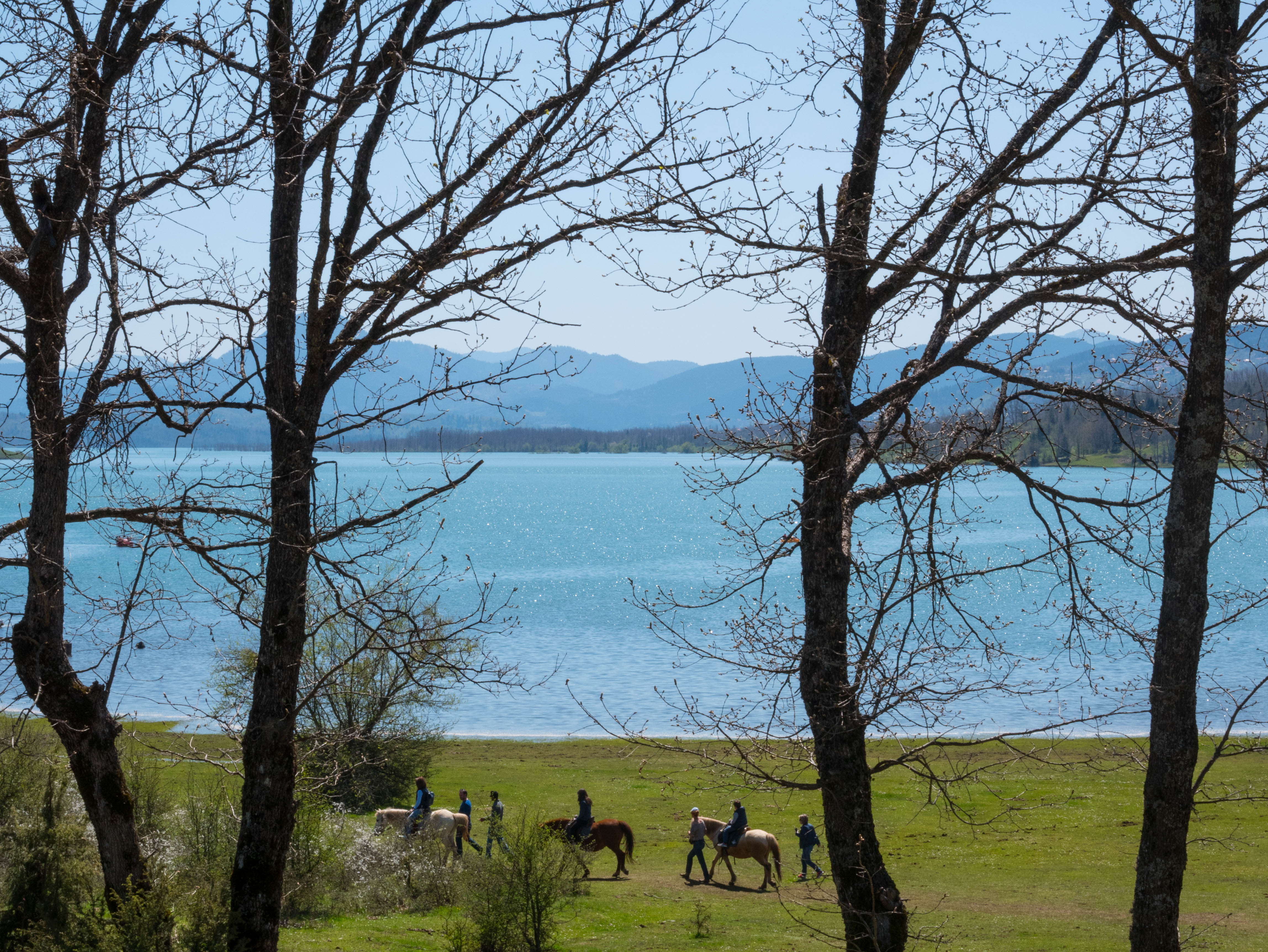 This is a photography of Natura 2000 protected area with ID GR1410001